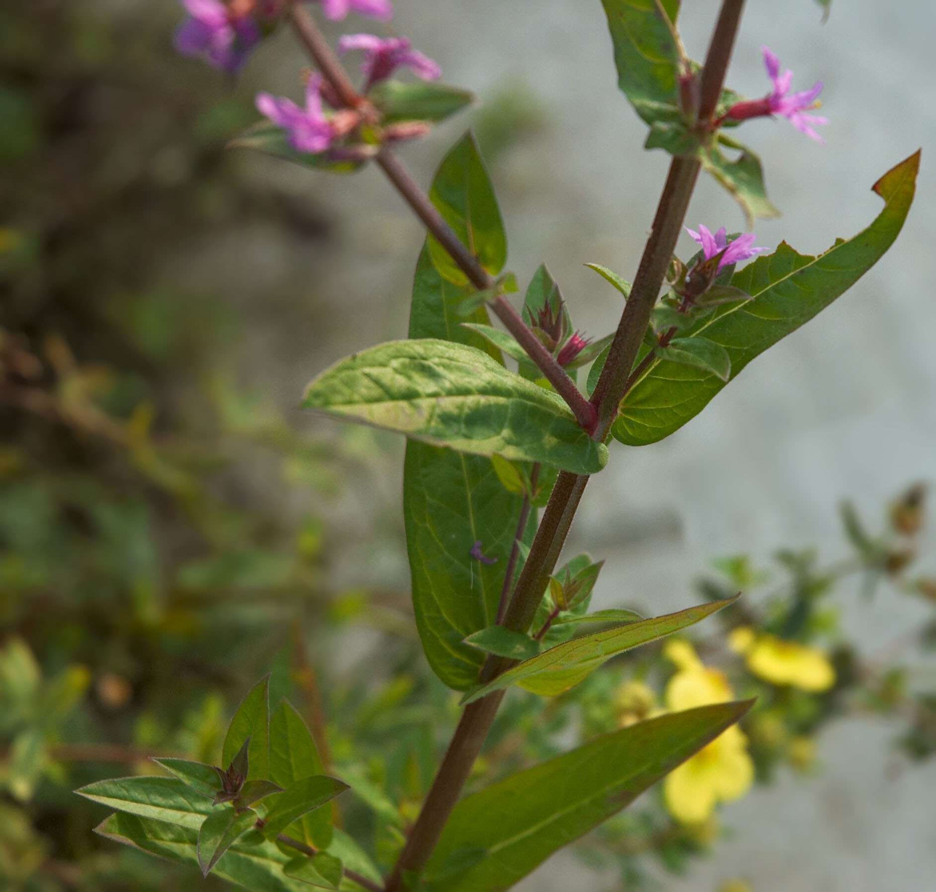 Purple loosestrife